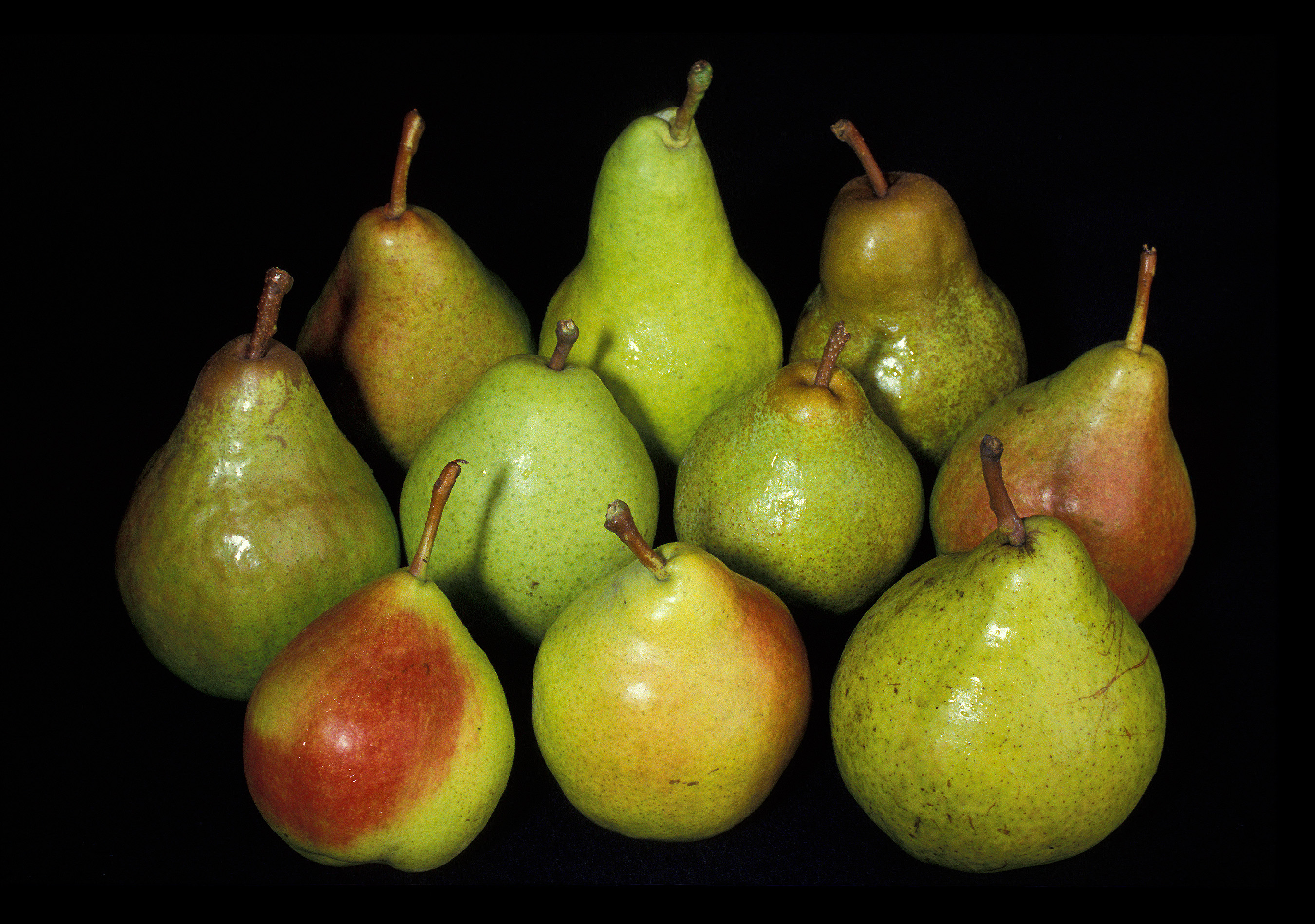 Front row, center: Shining among nine other advanced pear selections now getting their mettle tested at several U.S. locations, Potomac was released in May 1993.